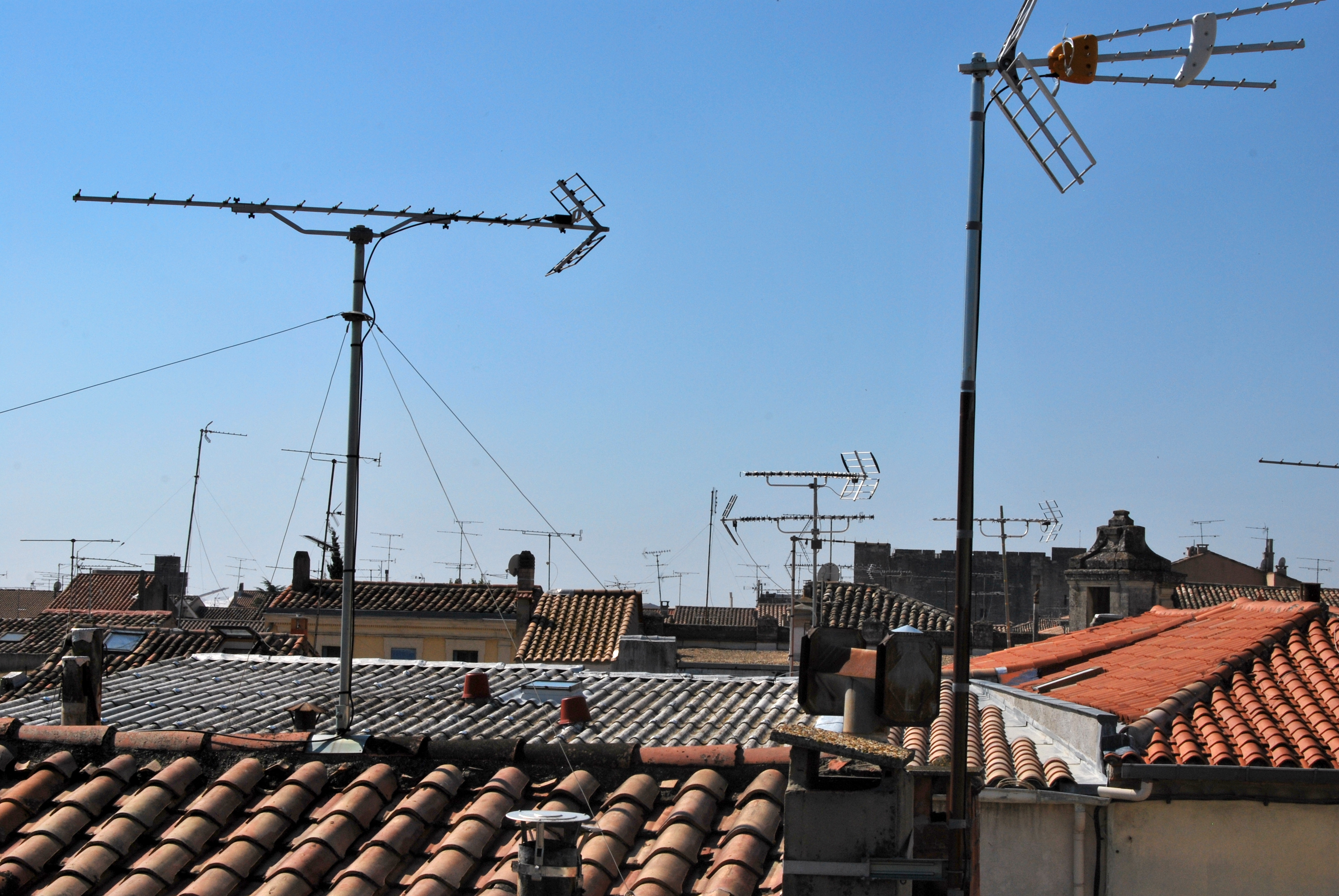 TV Antennas on the roofs of Aigues-Mortes